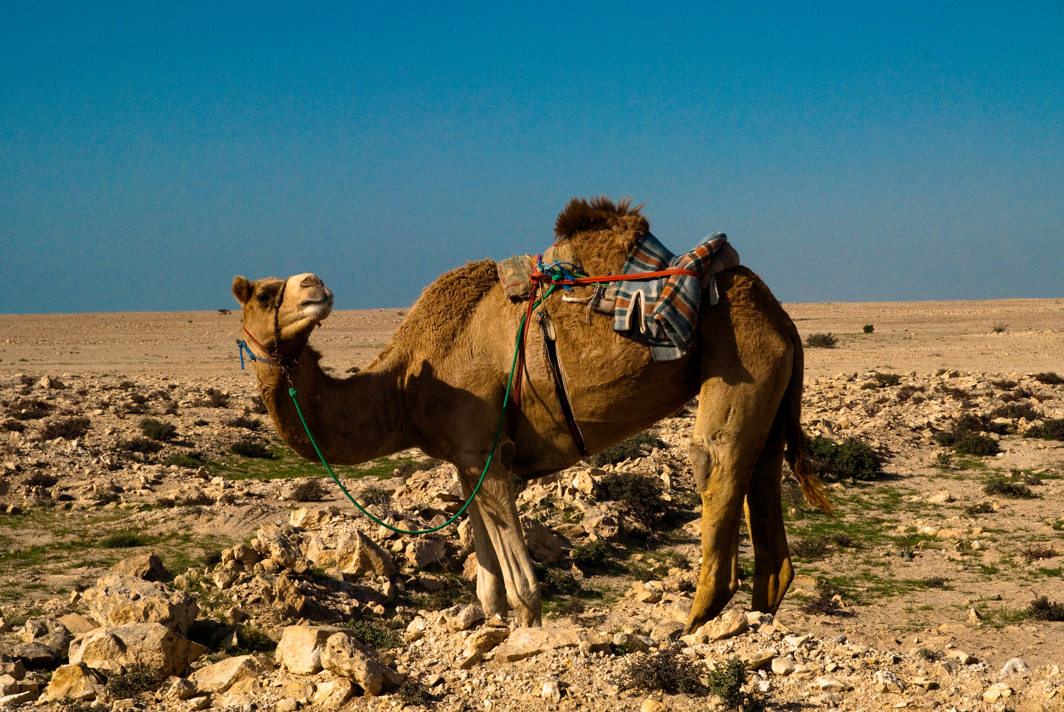 Startled Arabian camel in Al Shamal, northern Qatar.